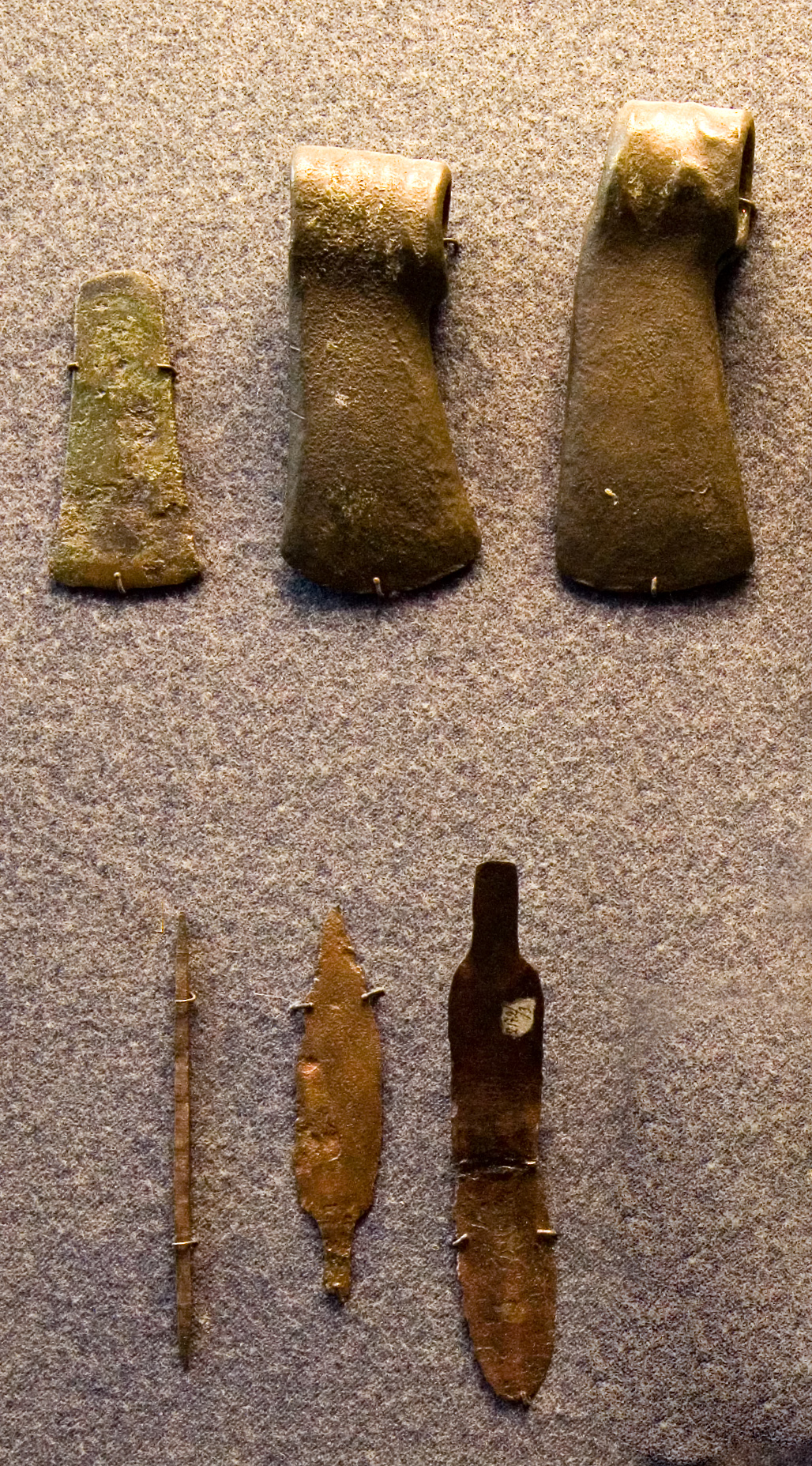 Objects found during excavations